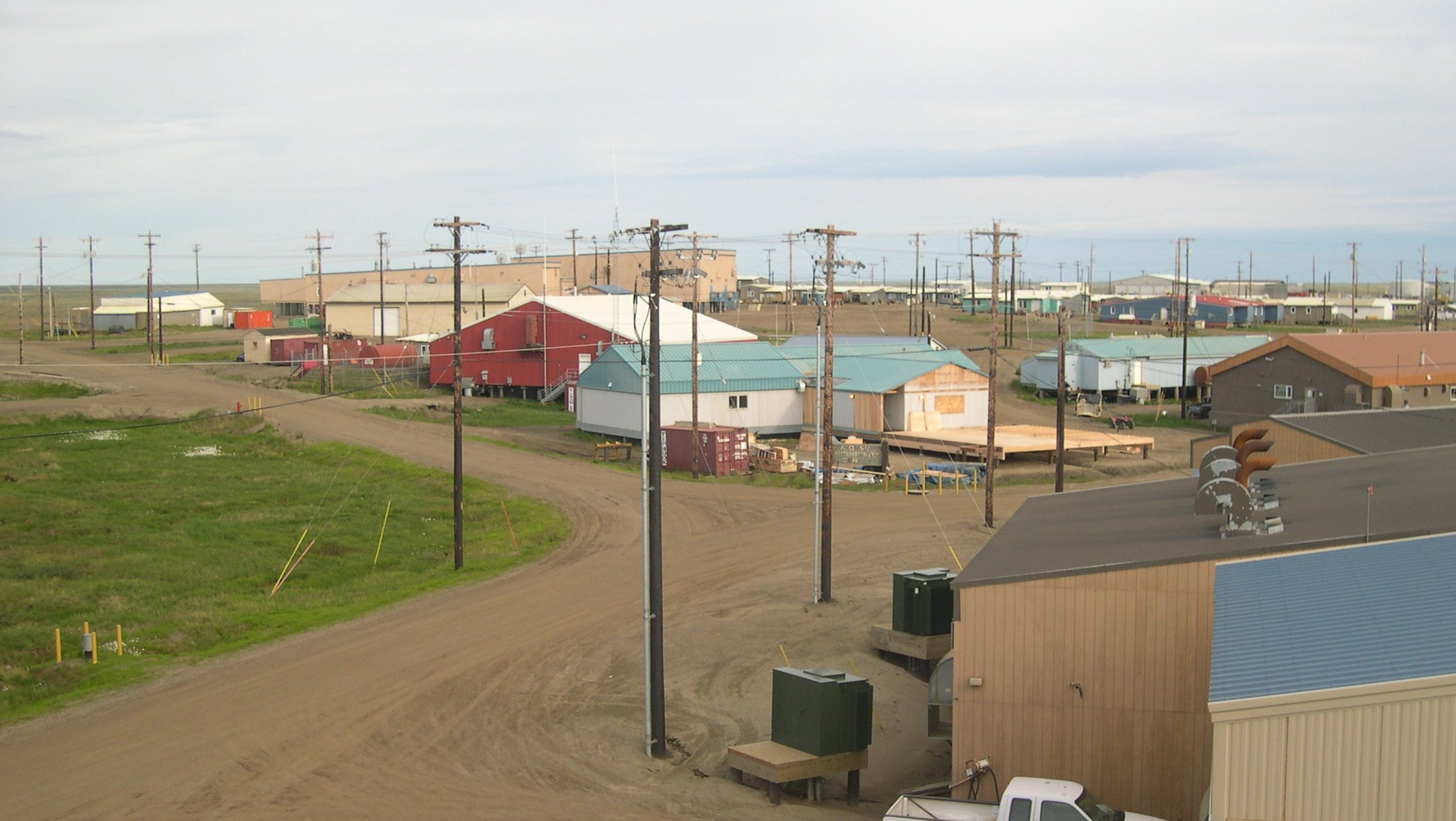 Atqasuk, AK